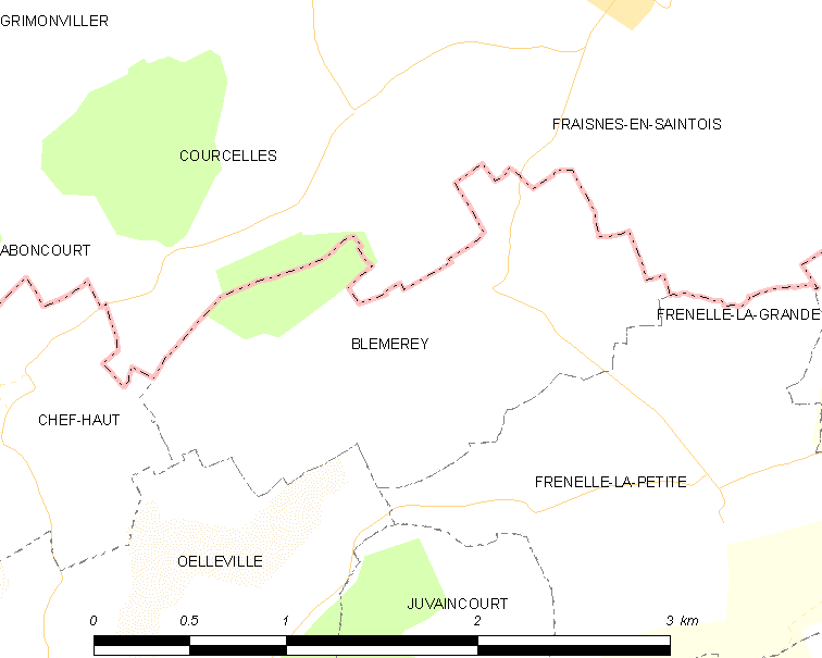 Map of French municipality Blémerey